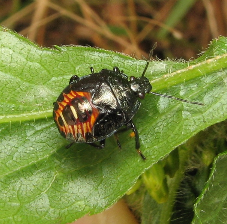 Nymph of predatory stink bug, Perillus, on goldenrod. Pennypack Restoration Trust, Montgomery County, Pennsylvania, USA.